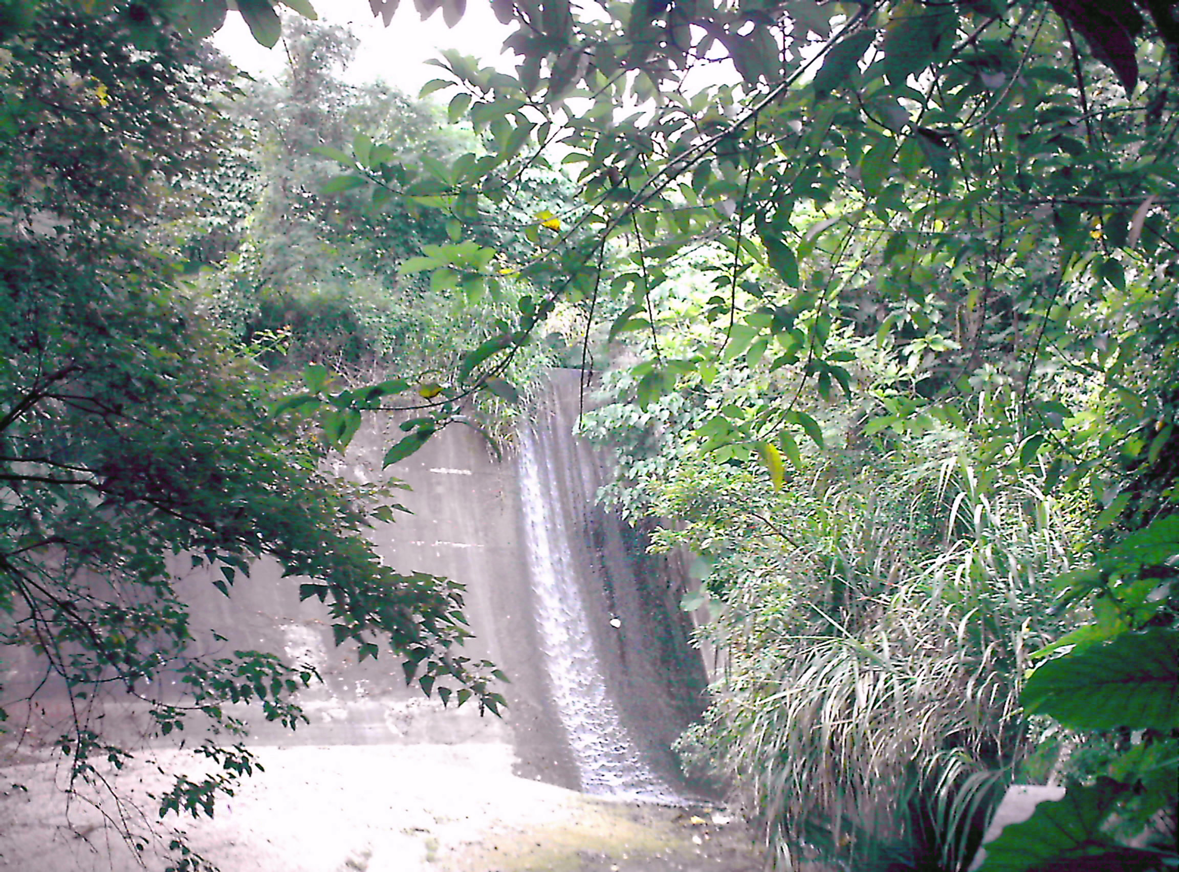 Waterfall from the overflow of Siu Sai Wu reservior, Kowloon 中文（香港）: 遠觀滿溢的湖水濺出堤壩造成小瀑布。